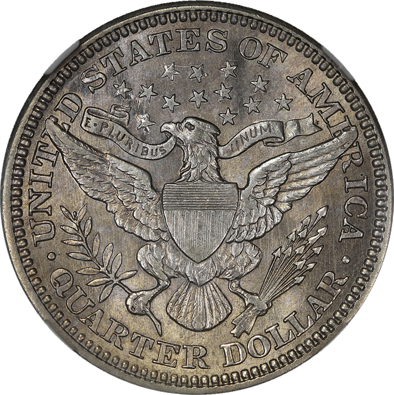 The reverse of the Barber quarter, this example minted in 1914. This particular coin is graded AU58 (almost uncirculated) by the Numismatic Guaranty Corporation (NGC) and is housed in a plastic holder.